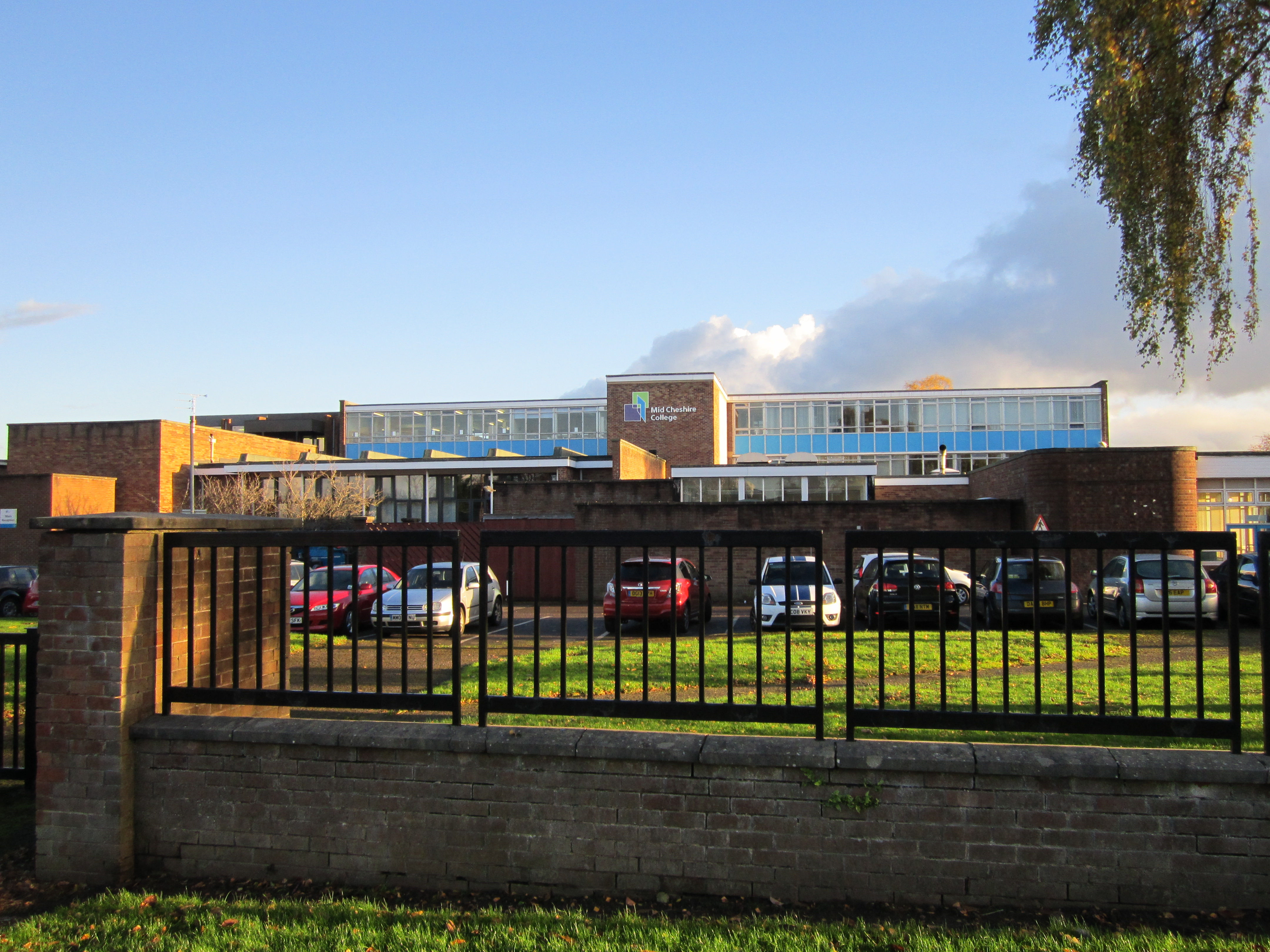 Mid Cheshire College, Hartford, Cheshire, England.